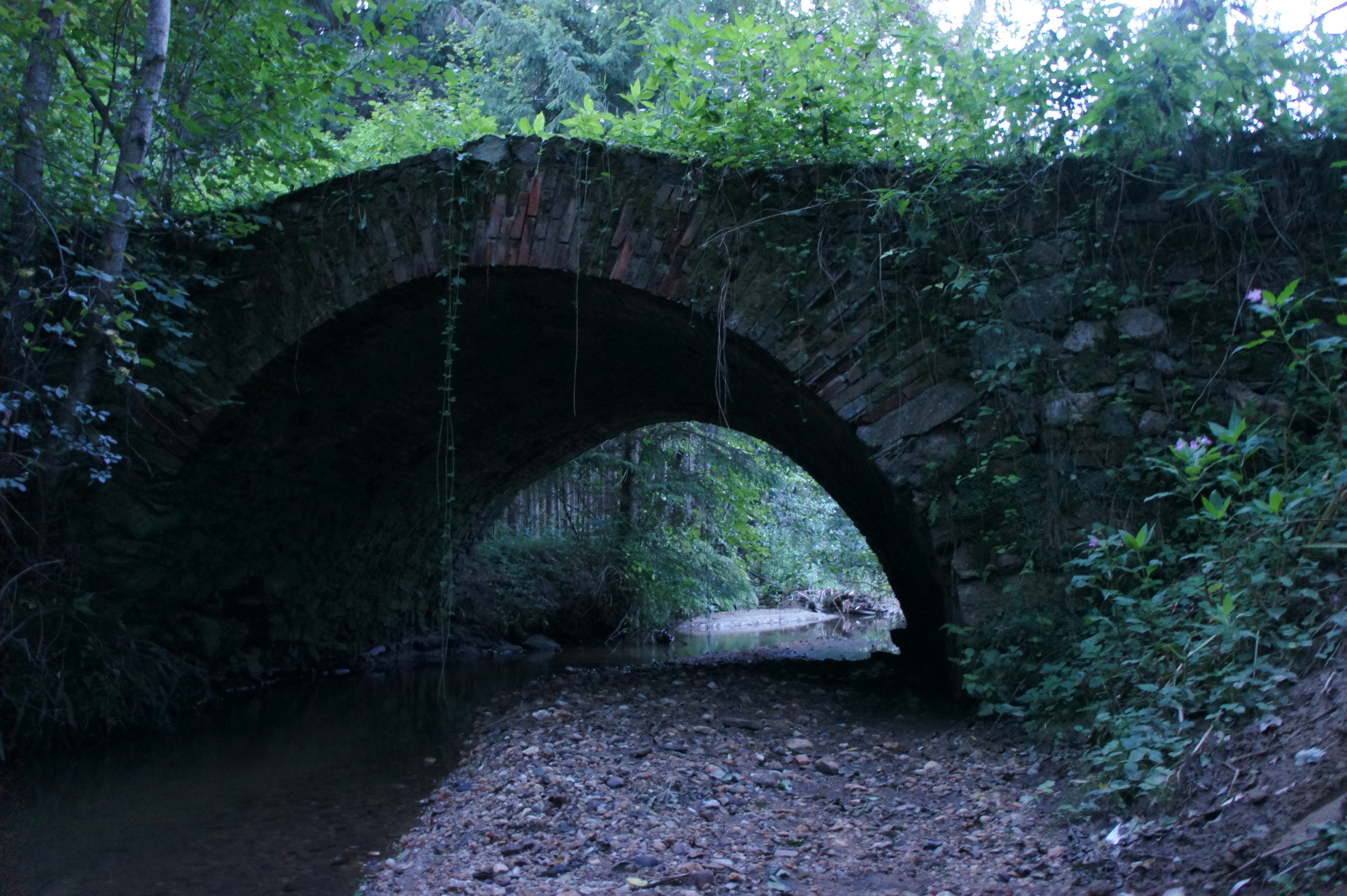 Roman bridge, Pinkafeld & Grafenschachen, Austria